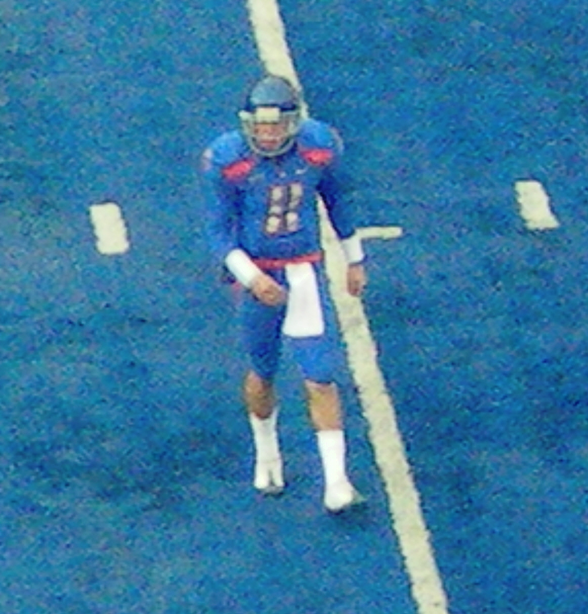 Boise State quarterback Kellen Moore during a game vs San Jose State on October 31, 2009 in Boise, ID